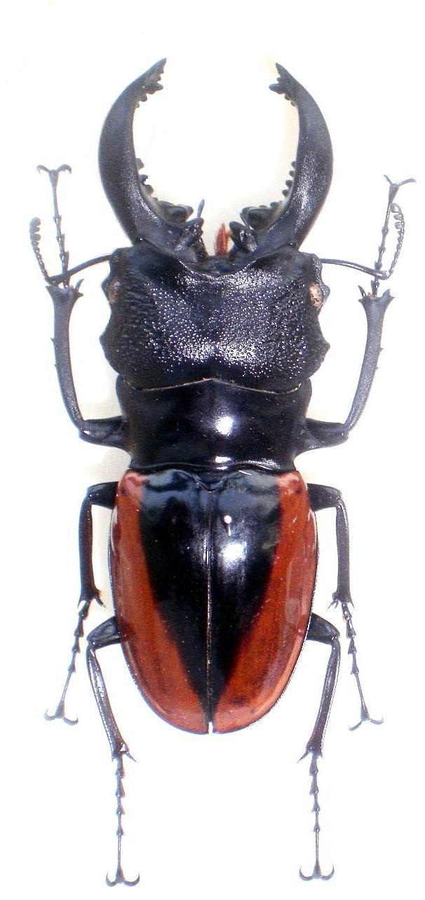 Odontolabis wallastoni